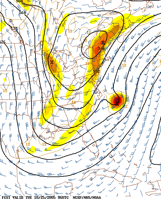 Typical upper level circulation for a Nor'easter Storm. The trough along the Appalachian brings cold air to the East Coast where it meets the Gulf Stream. Patrons typique de la circulation d'altitude pour le développement d'une Tempête du cap Hatteras: le creux barométrique amène de l'air arctique au-dessus du Gulf Stream.